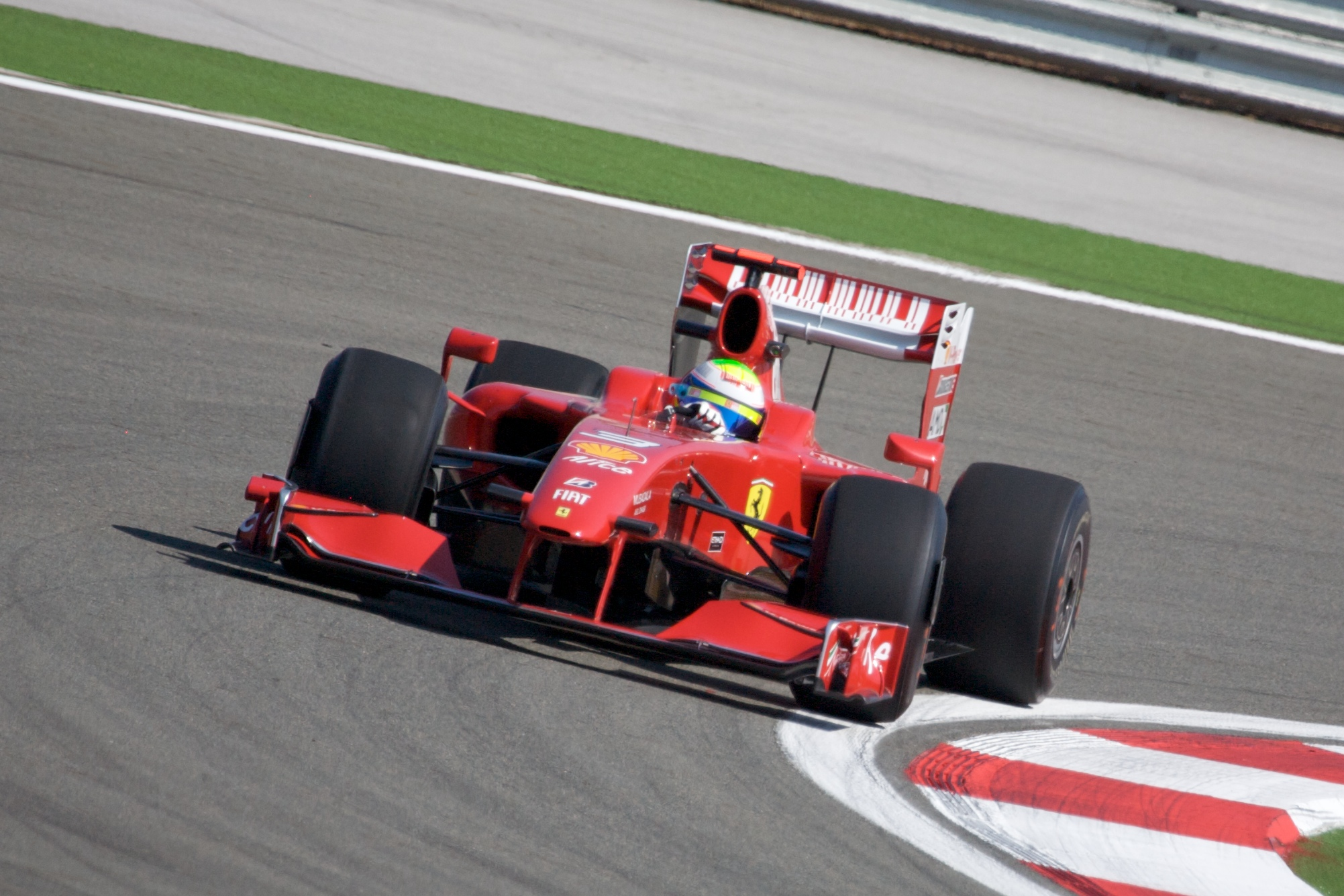 Felipe Massa driving for Scuderia Ferrari at the 2009 Turkish Grand Prix.